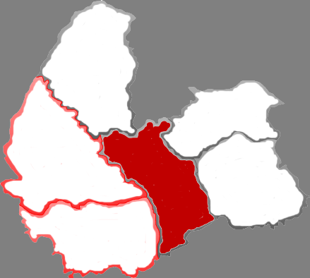 Location of Shanyin county in Shuozhou City, China